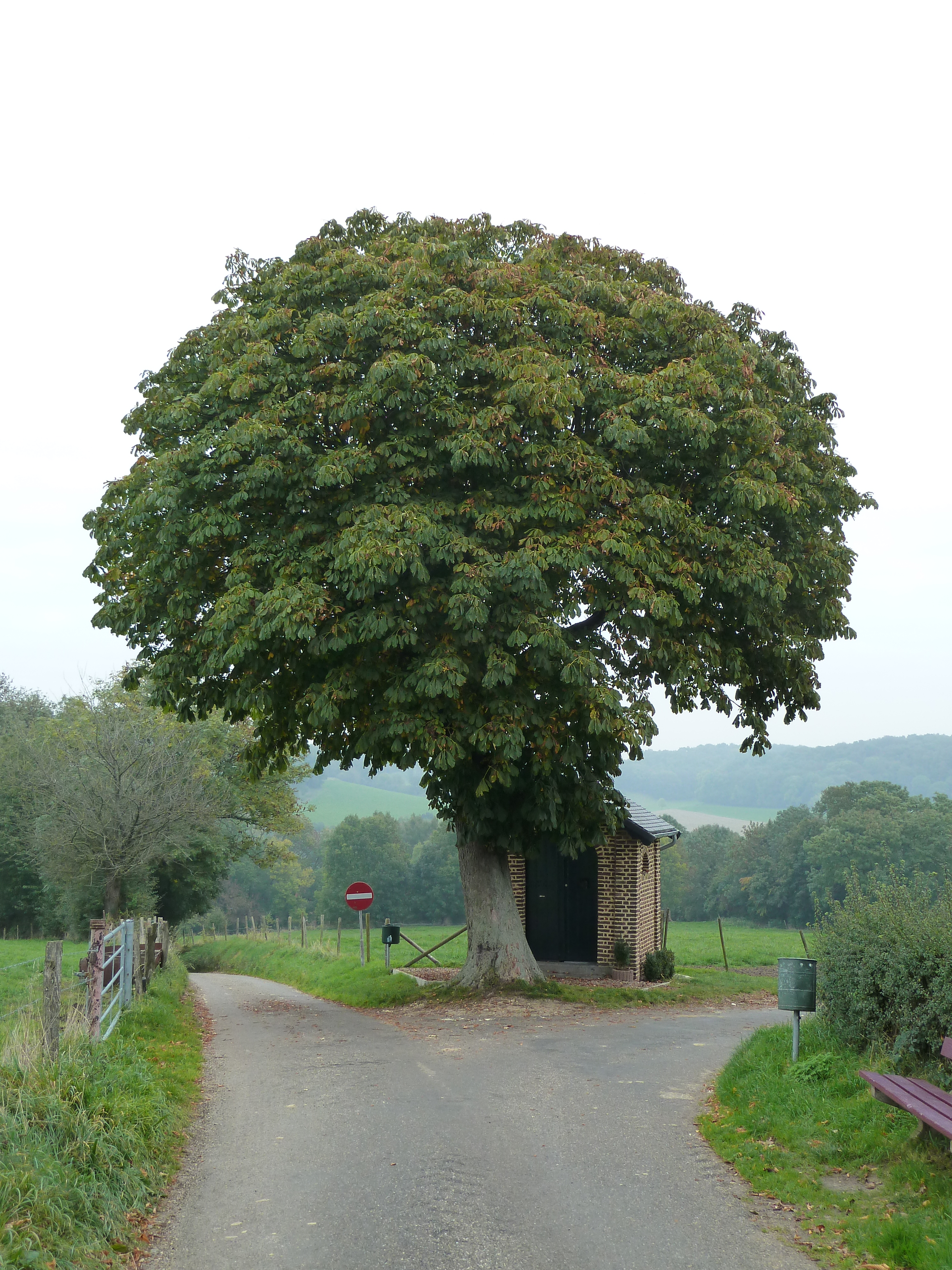 Sint-Annakapel, Slenaken-Schilberg, Limburg, the Netherlands